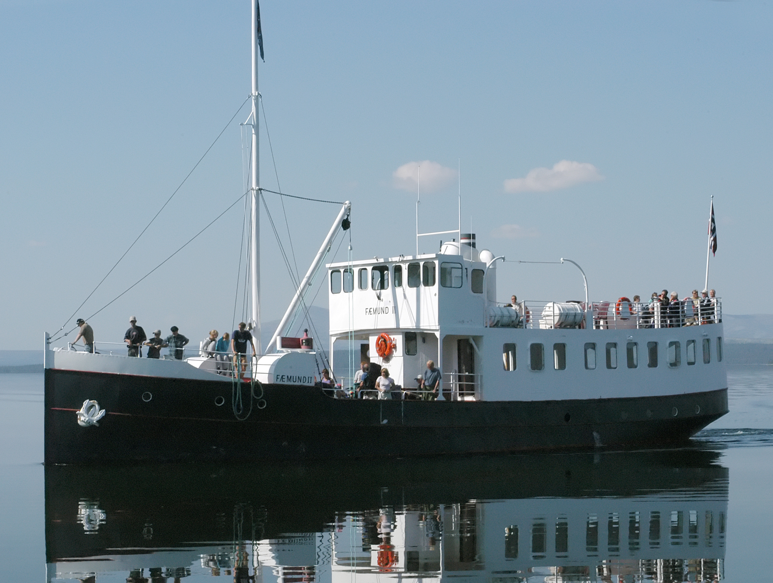 Picture of the Faemund II ship on the lake